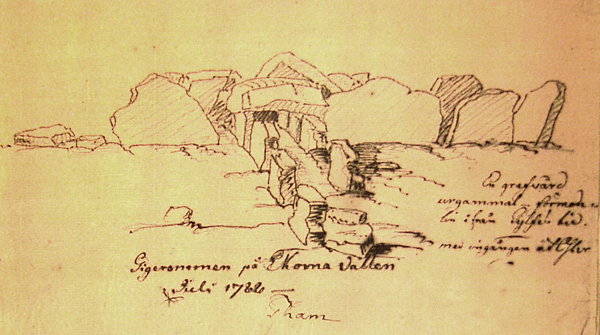 Drawing made by Pehr Tham in July 1782 showing the Neolithic passage grave "Girommen" (i.e. "The Giantess' Oven") (RAÄ No Hornborga 31:1) at Ekornavallen, Hornborga parish, Gudhem hundred, Falköping municipality, former Skaraborg county, Västergötland, Västra Götalands län, Sweden. Photo taken in the exhibition "Pyramids of the North" at Falbygdens museum in Falköping the summer 2008. This exhibition has been exhibited in Germany and the Netherlands.